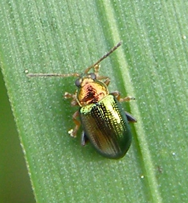 A female willow flea beetle, Crepidodera aurata.